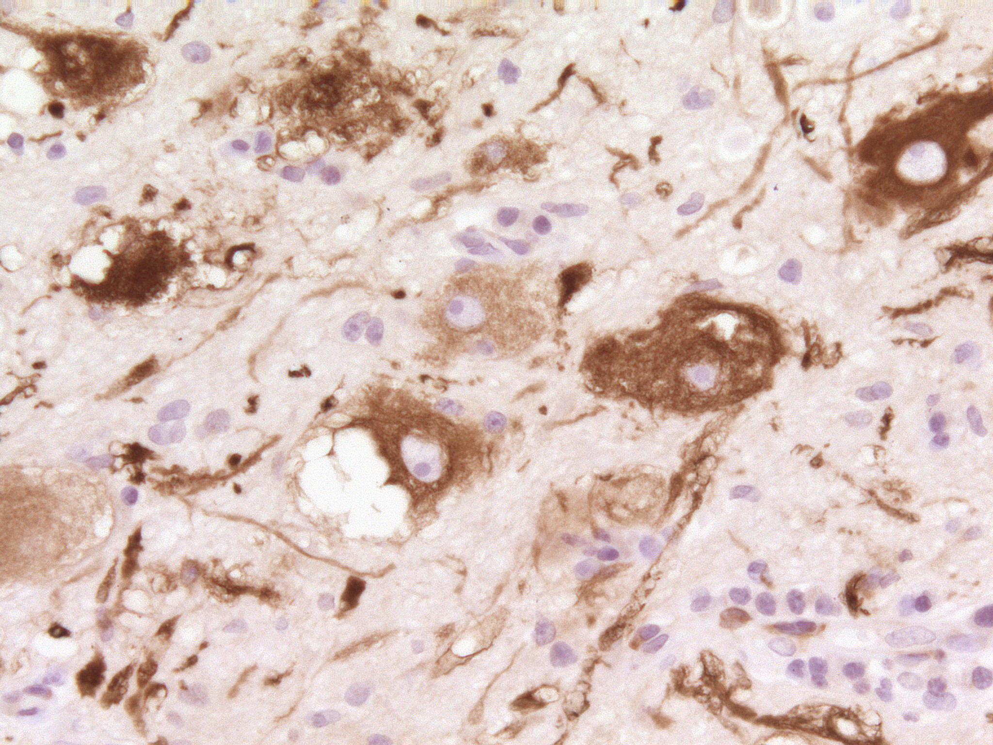 Calbindin IHC of a cerebellum in Lhermitte Duclos disease